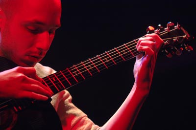 Erik Mongrain live at Club Soda of Montreal by Victor Diaz Lamich